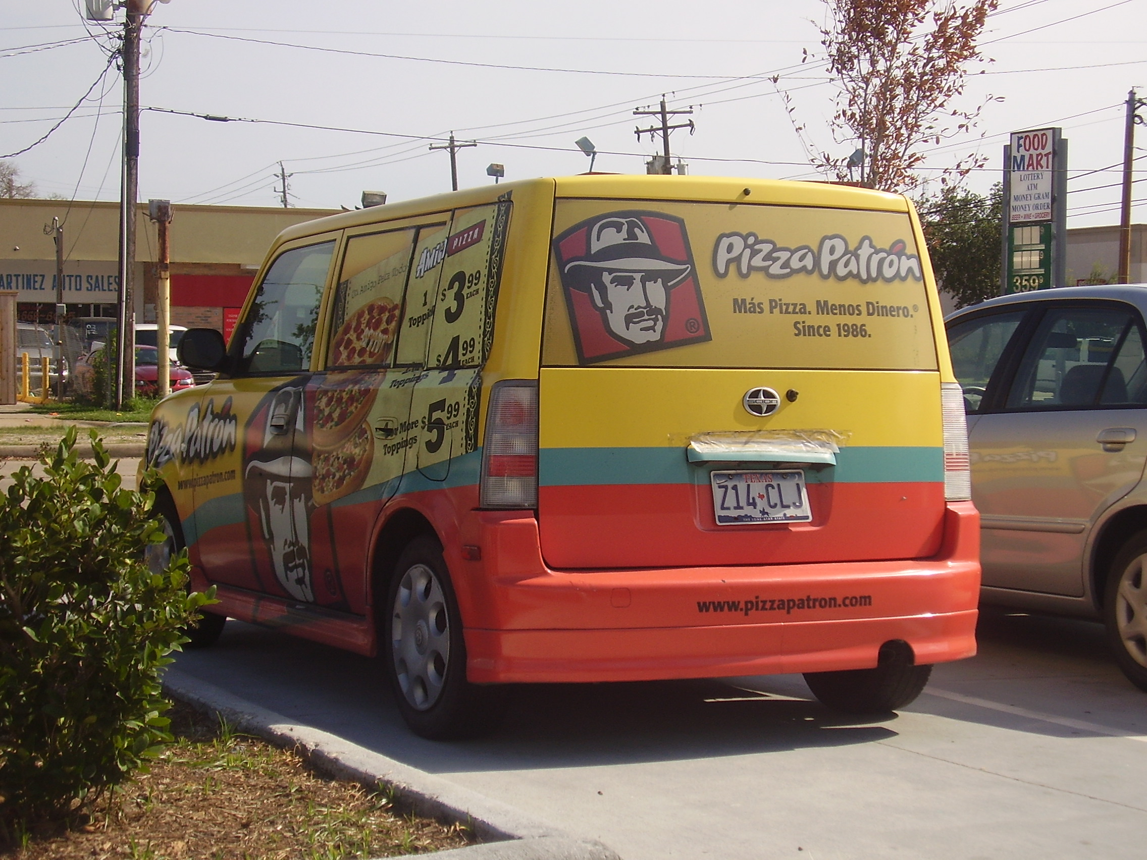 Pizza Patrón delivery car